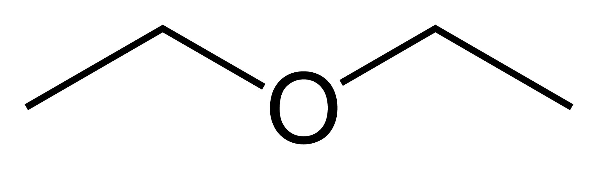 Skeletal formula of diethyl ether. The structure has been determined by single-crystal X-ray diffraction in Acta Cryst. (1972) B28, 2389-2395.